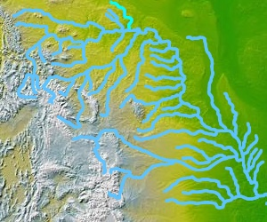 Big Muddy Creek ©2004 Matthew Trump